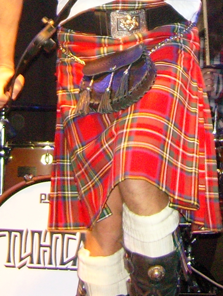 Tintal 2011